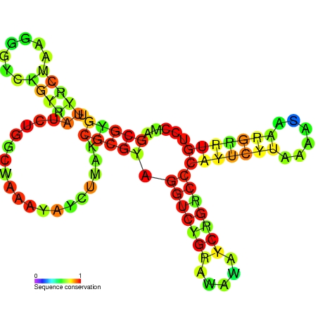 Secondary structure image for ATPC non coding RNA (RF01067). Nucleotide colouring indicates sequence conservation between the members of this family.